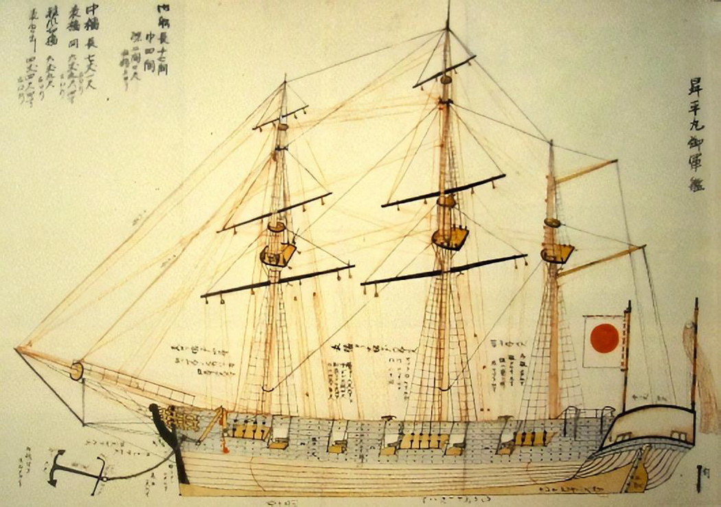 Shōhei Maru (Japanese: 昇平丸) was Japan's first Western-style warship following the country's period of Seclusion. She was ordered in 1852 by the government of the Shogun to the southern fief of Satsuma in the island of Kyushu, in anticipation of the announced mission of Commodore Perry in 1853. The ship launched in launched in 1854. Drawing is circa 1855